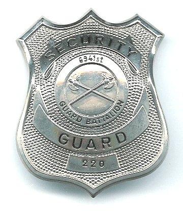 Guard Badge, 6941st Guard Battalion